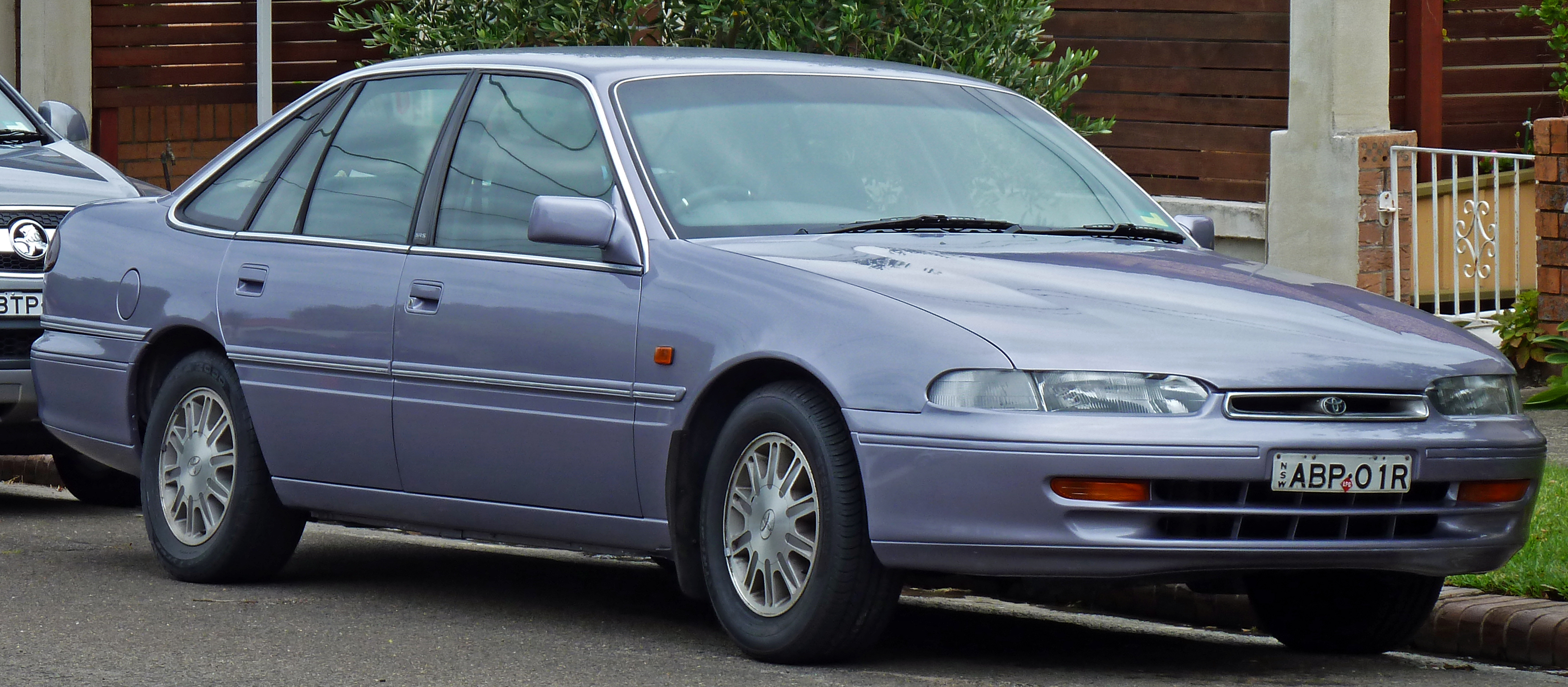 1993–1995 Toyota Lexcen (T3) Newport sedan. Photographed in Ramsgate, New South Wales, Australia.